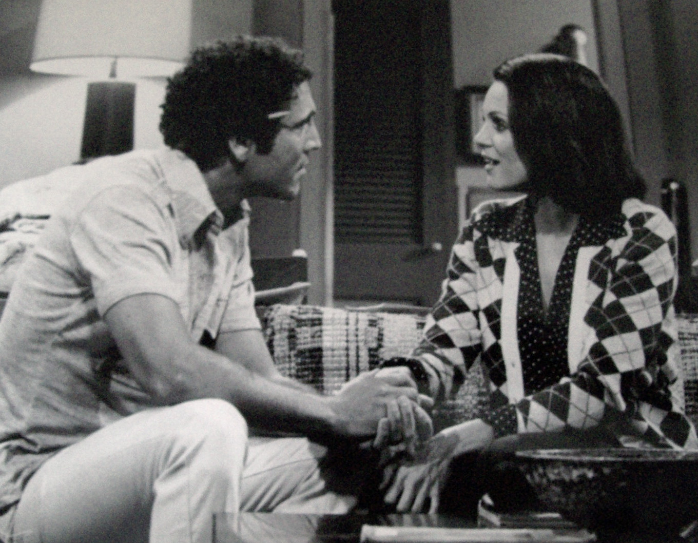 Photo of David Groh (Joe Girard) and Valerie Harper (Rhoda Morgenstern) from the television series Rhoda. In this episode, Joe asks Rhoda to live with him to see if they're compatible.